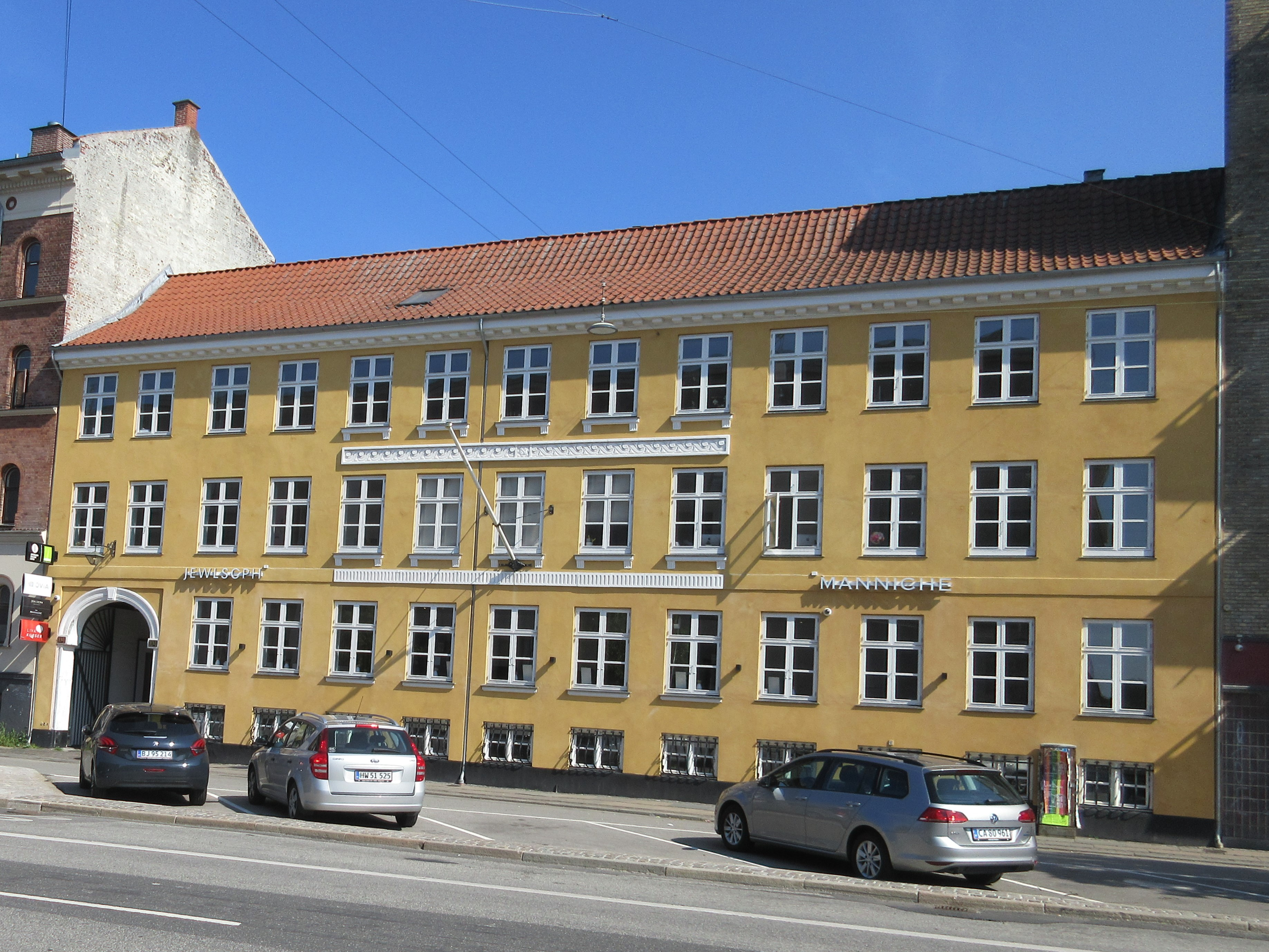 Blegdamsvej 104 in Copenhagen, Denmark